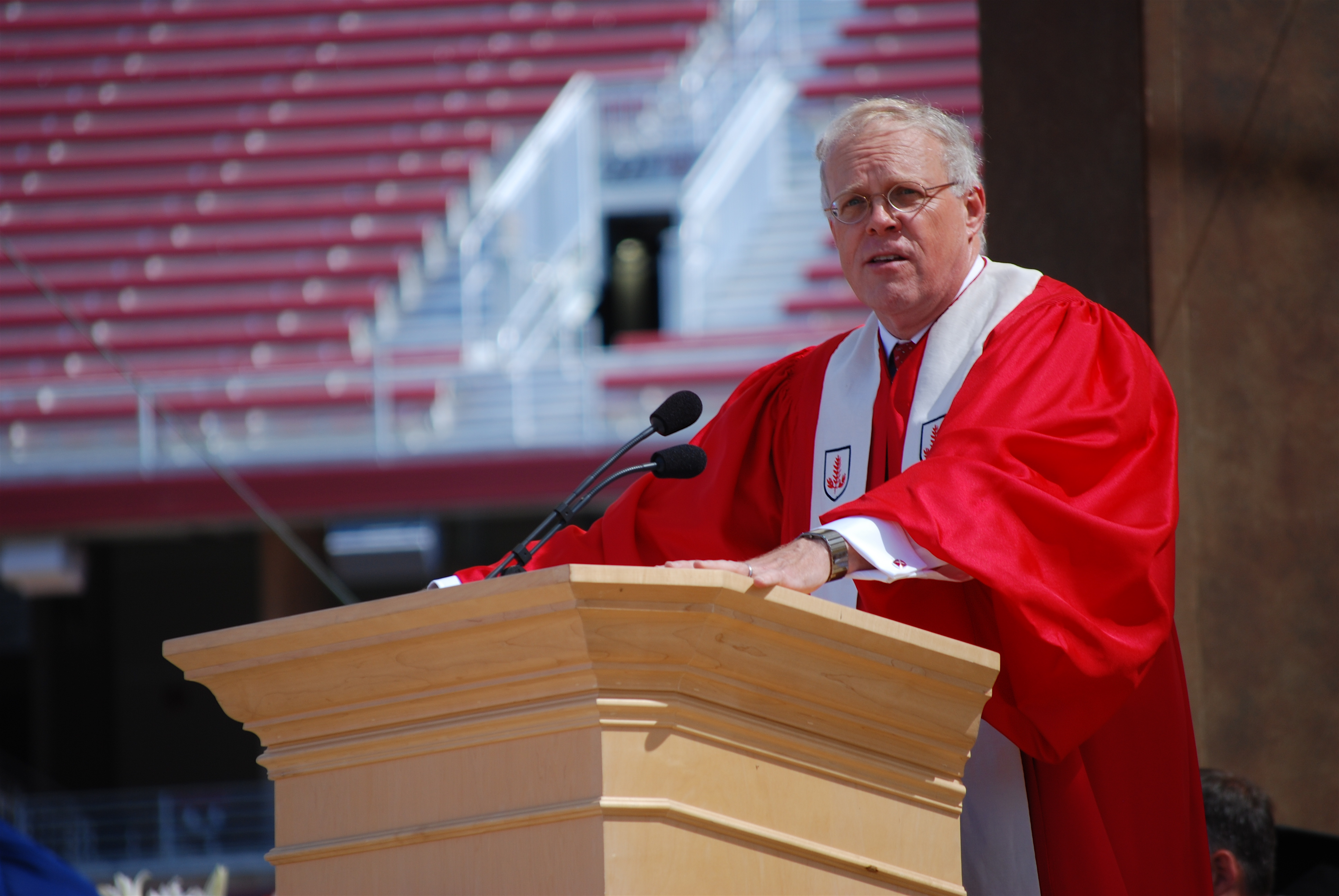 John L. Hennessy, 10th president (since October 2000) of Leland Stanford Junior University in Stanford, California, United States of America. This photo shows him giving a speech at Stanford University's commencement on 2007-06-17 in Stanford Stadium. The author of this photo is Eric Chan who uses the Flickr username maveric2003.